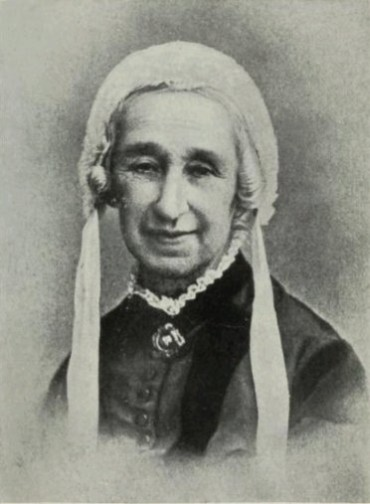 Christian author